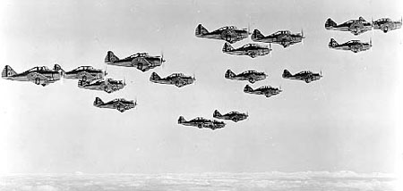 Seversky P-35 18 aircraft formation